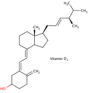 I tried to show as many relevant stereo bonds as I could, but it might still need some work.